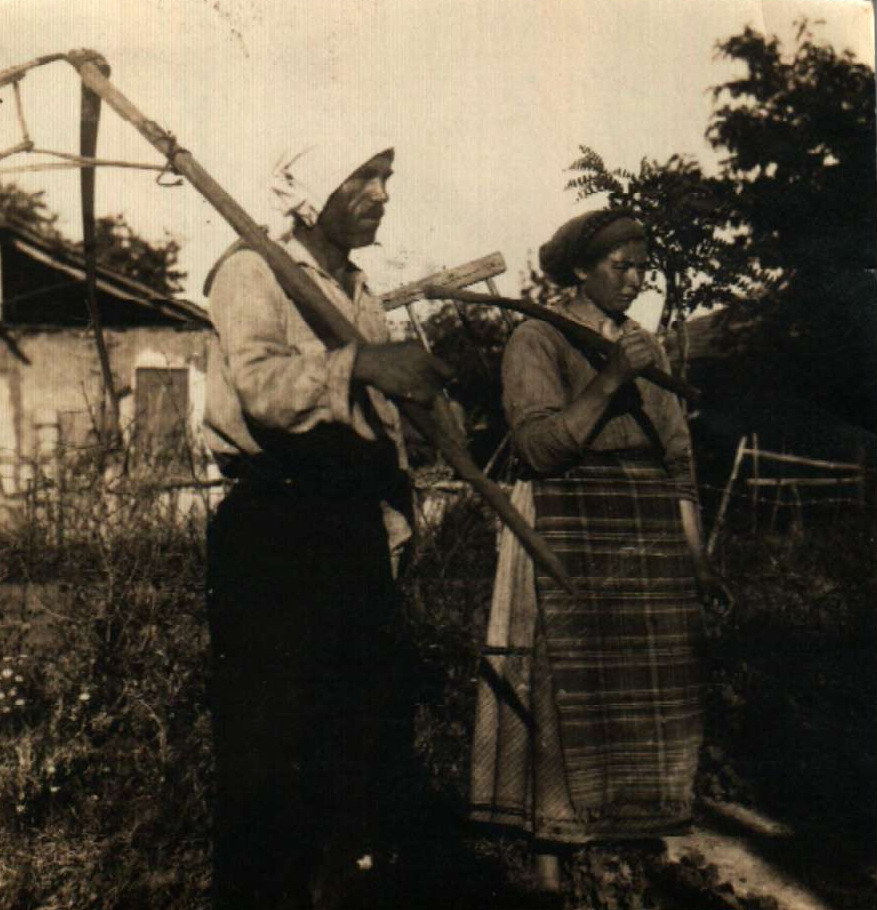 Villagers in Çatalca, Drama region.